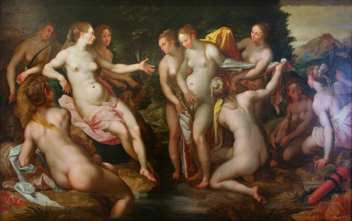 Diana Discovers Callisto's Pregnancy.